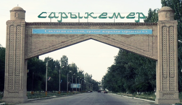 sarykemer photo